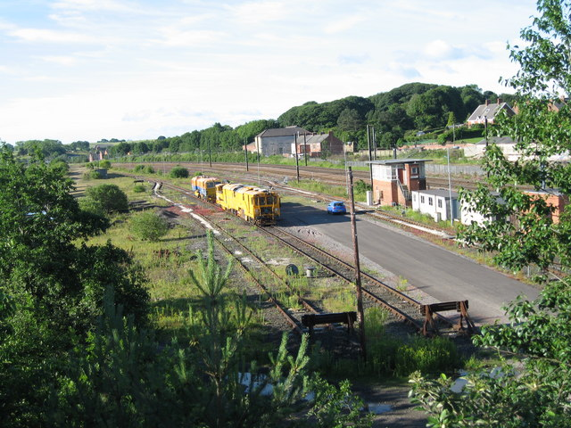 Ferryhill Station Siding